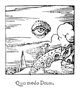 Quo Modo Deum - alchemical woodcut (17th Century?) Woodcut from a book on alchemy showing an "Eye in the Sky" precursor to the Eye of Providence. Quo Modo Deum translates as 'This is the way of God'.